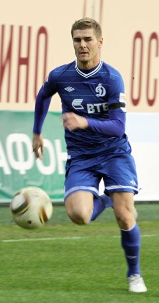 Marcin Kovalchik